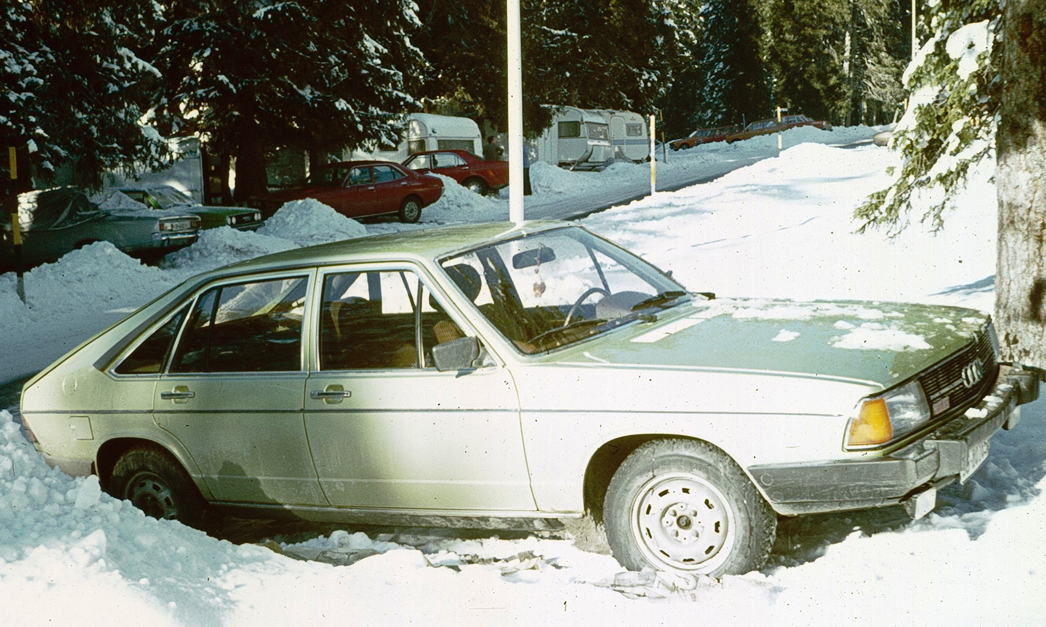 Audi 100 Avant in a lot of snow